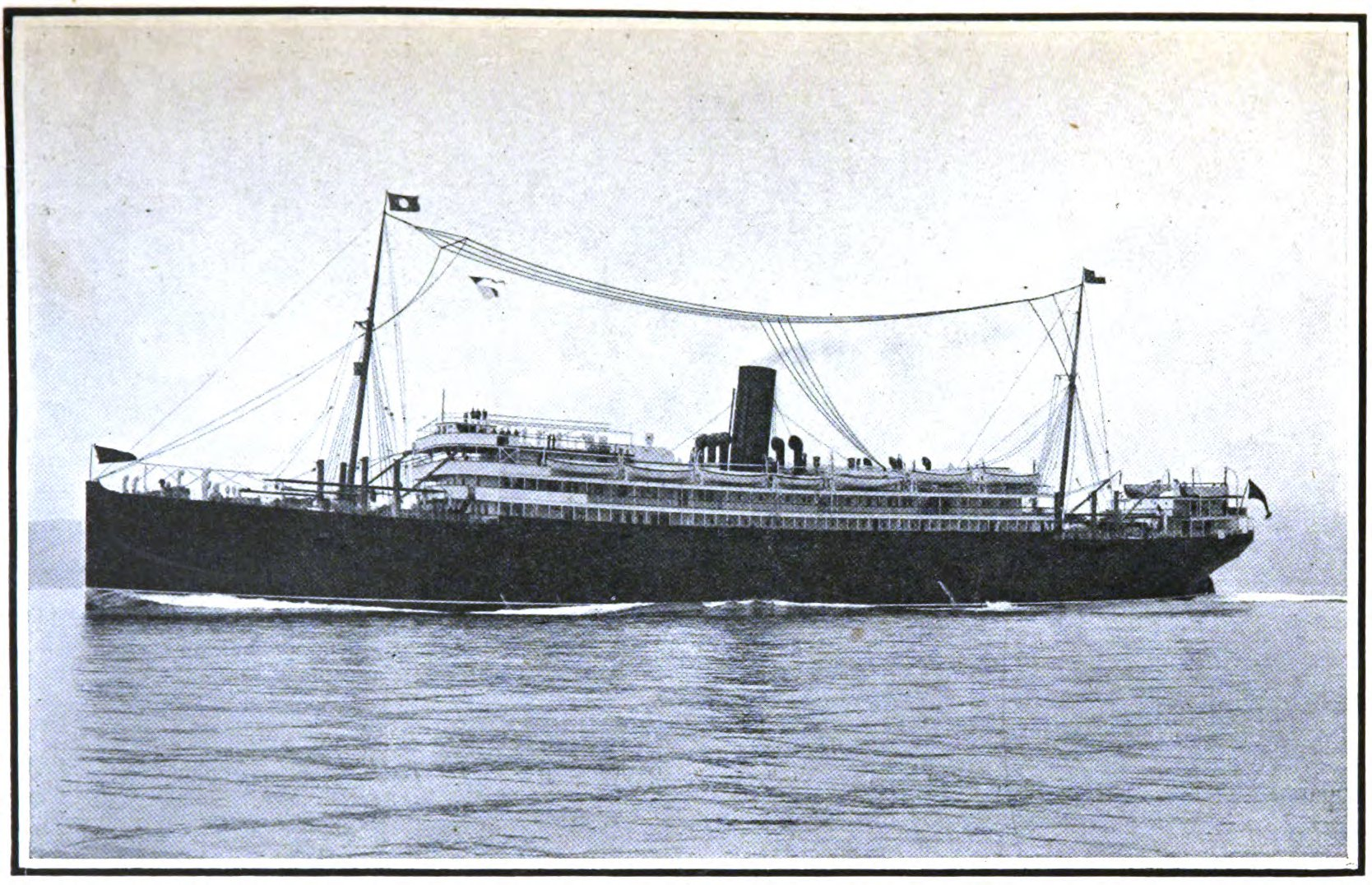 Typical wireless antenna on a steamship in 1914. This was a type called a T aerial, consisting of several horizontal wires suspended from spreaders between two masts, with vertical feeder wires connected to the center extending down to the transmitter in the radio cabin. The vertical wires served as a monopole radiator, while the horizontal wires served as a "top-load", adding capacitance to the antenna to increase the current in the vertical radiators. One of the first uses for radio was on ships, to keep in touch with shore and call for help in the event the ship was sinking. High profile rescues like the sinking of the RMS Titanic had prompted the US Congress to require in 1912 that all ships over a certain tonnage carry wireless gear that was manned at all times. The spark-gap transmitters in use at this time could not transmit speech but transmitted information by wireless telegraphy; the transmitter was turned off and on rapidly by the operator to spell out messages in Morse code. Ship wireless used wavelengths of 300-600 meters (500 kHz - 1 MHz) with radiated power of 500 - 5000 W. The Marconi Co. had a virtual monopoly on ship wireless, since its operators were forbidden to handle traffic from equipment of other manufacturers. The antenna wires in the original photo have obviously been traced in with ink to bring them out against the sky, as otherwise the narrow wires would be virtually invisible at this distance, and the black and white photo has been hand-tinted.